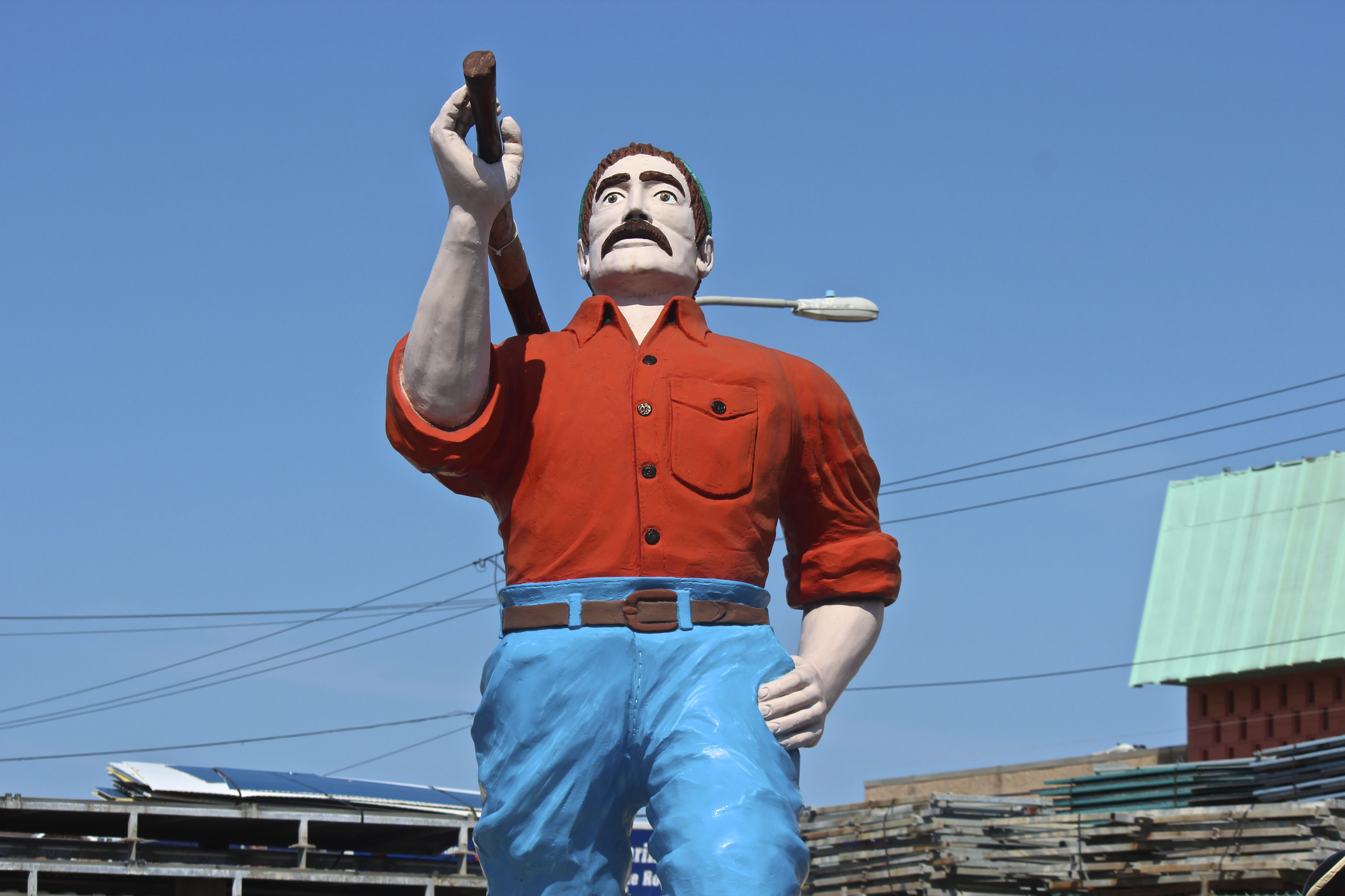 Seaside Heights, New Jersey